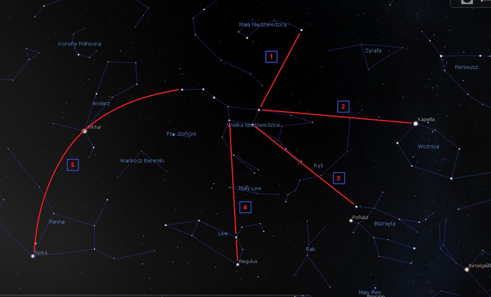 Big Dipperas an orientation aid in the night sky. Own study based on the screenshot from the Stallarium program.